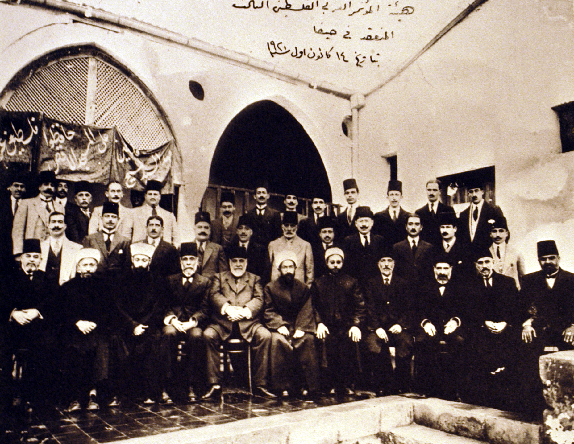 The Third Palestinian National Congress, in Haifa, British Mandate of Palestine — 14 December 1920. Front 4th from left is Musa Kazim al-Husseini, elected chairman of the Executive Committee. Front 5th from left is Pasha Aref Dajani, Mayor of Jerusalem in 1918. Third right in back row is Amin al-Husseini future mufti of Jerusalem.